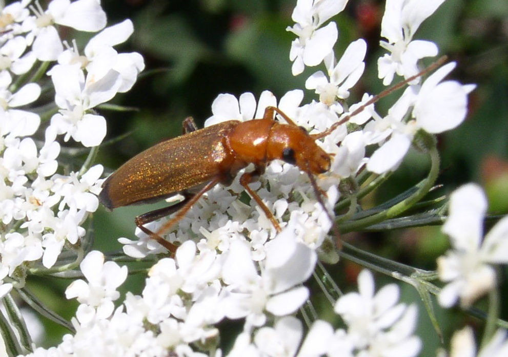 Wharf borer beetle, Nacerdes melanura. York Harbor, York County, Maine, USA.